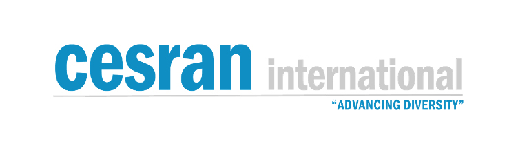 This is a logo for Centre for Strategic Research and Analysis.